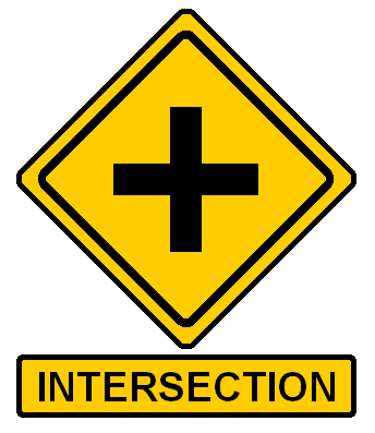 Intersection sign